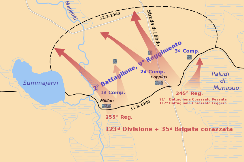 Lahde Road Battle - Winter War